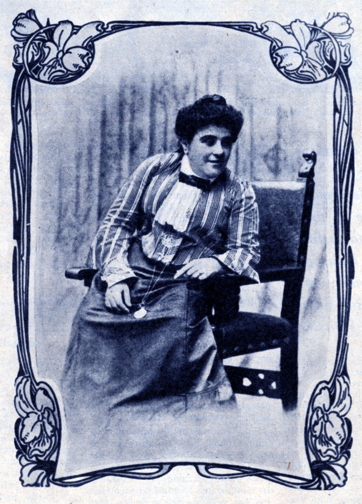 photo from the magazine Radiocorriere (1890)